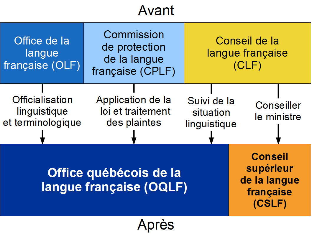 Diagram about the transfer of responsibilities between different organizations of promotion of French in Quebec after the bill 104.